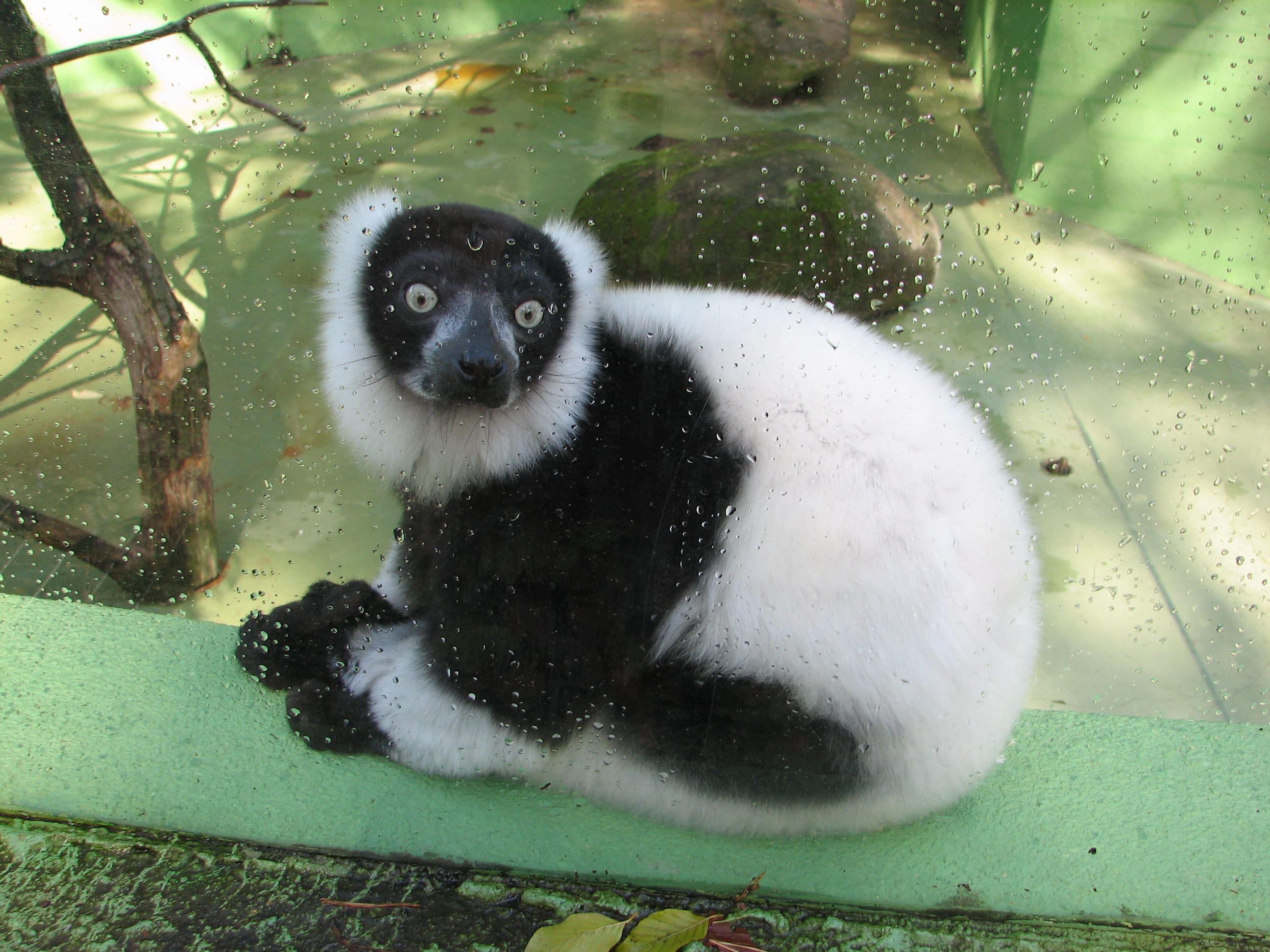 Varecia veriegata (Black-and-white Ruffed Lemur) in ZOO Olomouc, Czech Republic